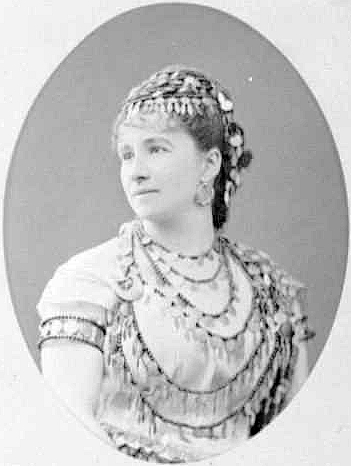 French opera singer Alice Ducasse (ca. 1846 - ?) photographed by Franck (1816-1906).